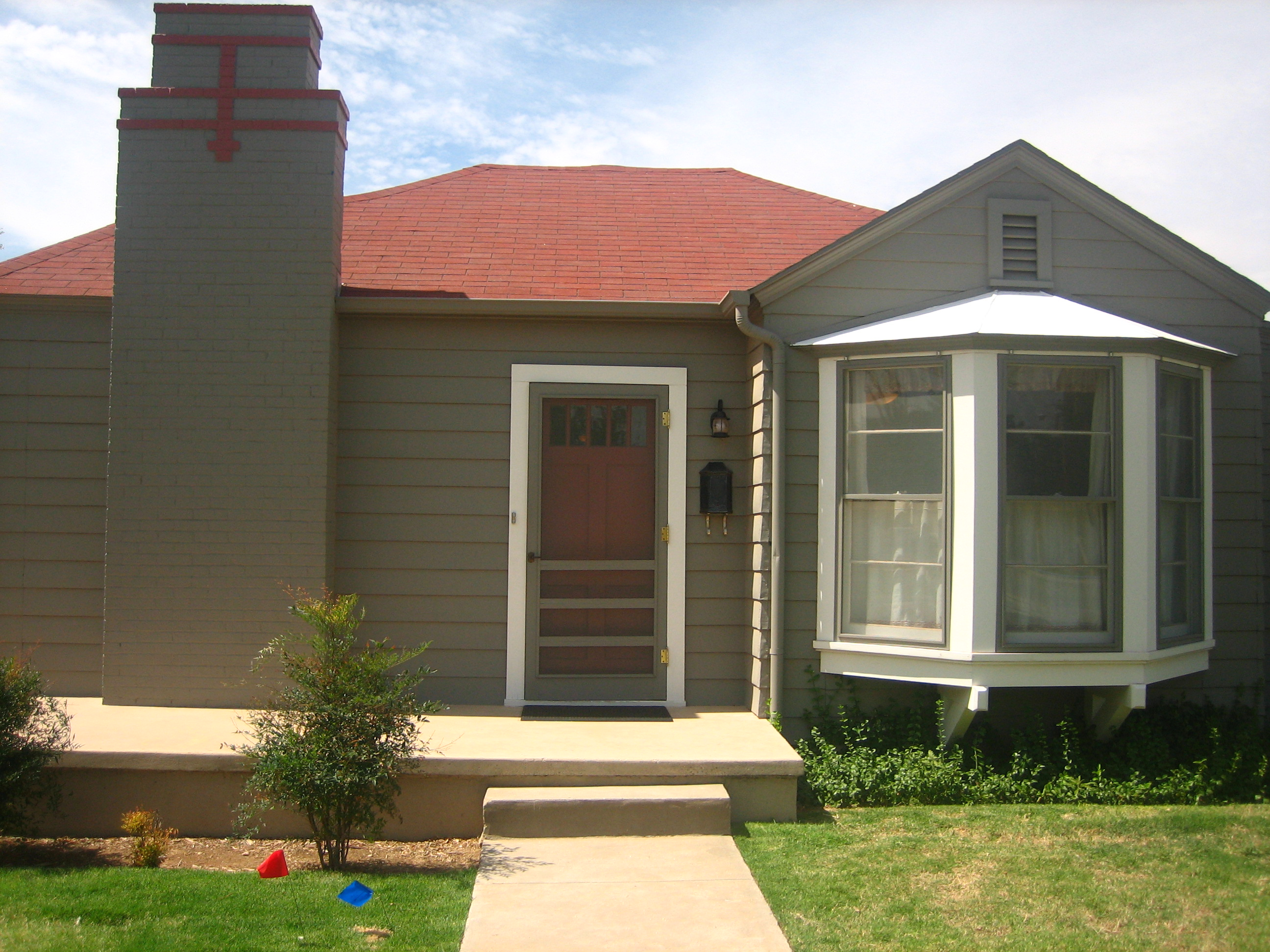 Childhood home of George W. Bush on Ohio Street in Midland, TX